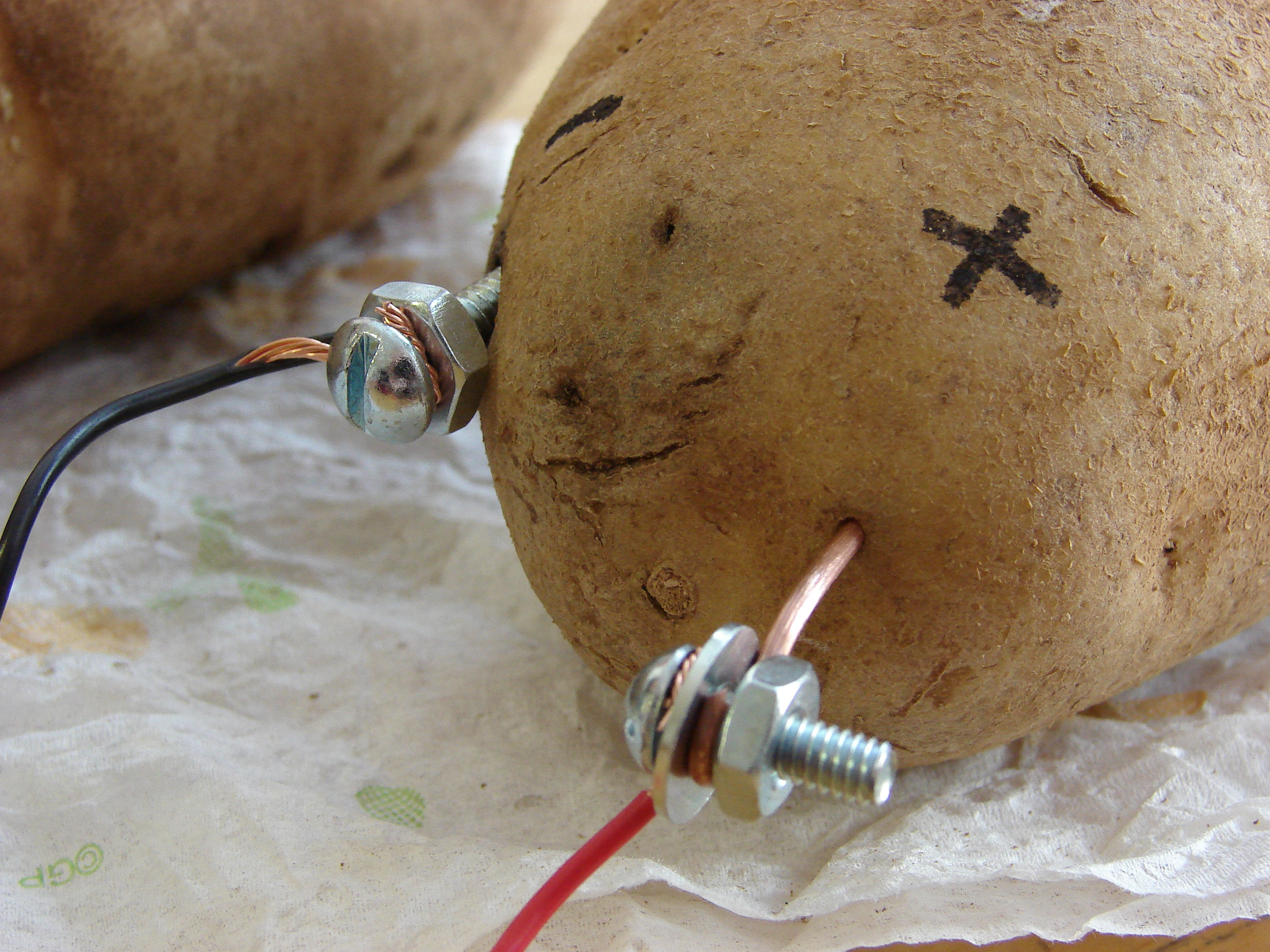 Potato battery, a science fair experiment. Utilizes copper (bare copper wire) and zinc (galvanized threaded bolt) electrodes, and the phosphoric acid of the potato as an electrolyte.